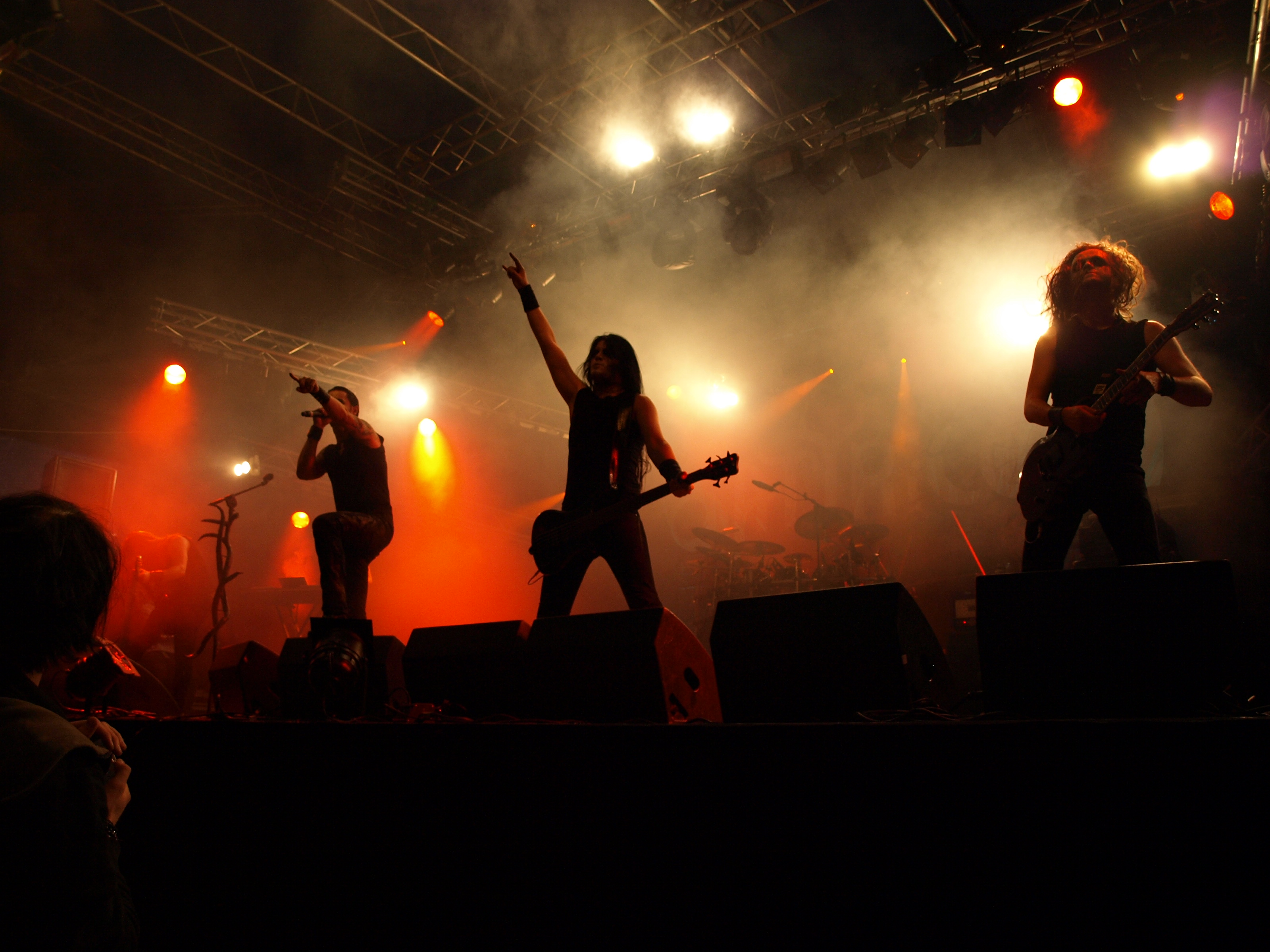 Norwegian black metal band Satyricon live at Jalometalli 2008 in Oulu.